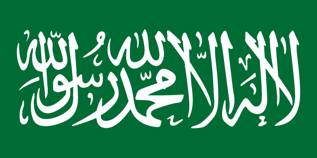 Green flag with the Shahada.